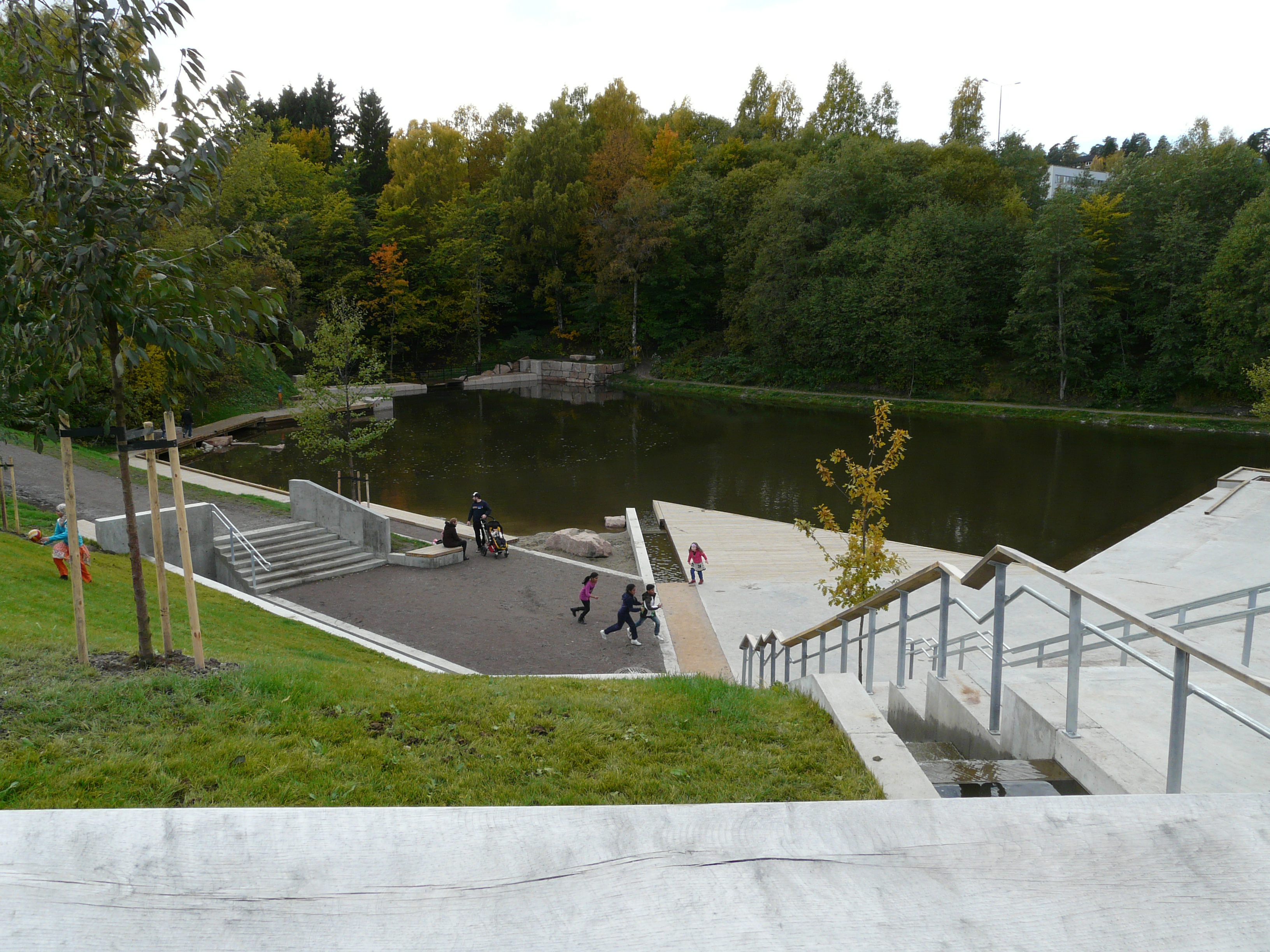 Groruddammen, a part of the Grorud park along Alna river, October 2013.